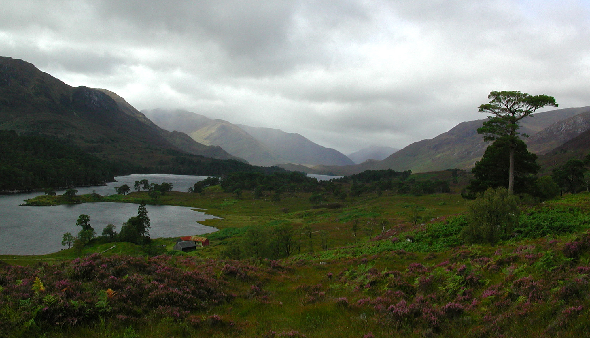 Very moody view of Glen Affric, Scotland, looking West over Loch Affric.